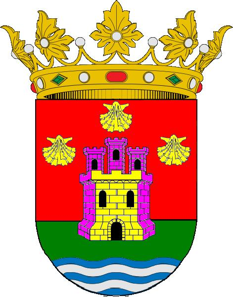 Coat of arms of the city of Santiago del Estero, in the Province with the same name, Argentina.